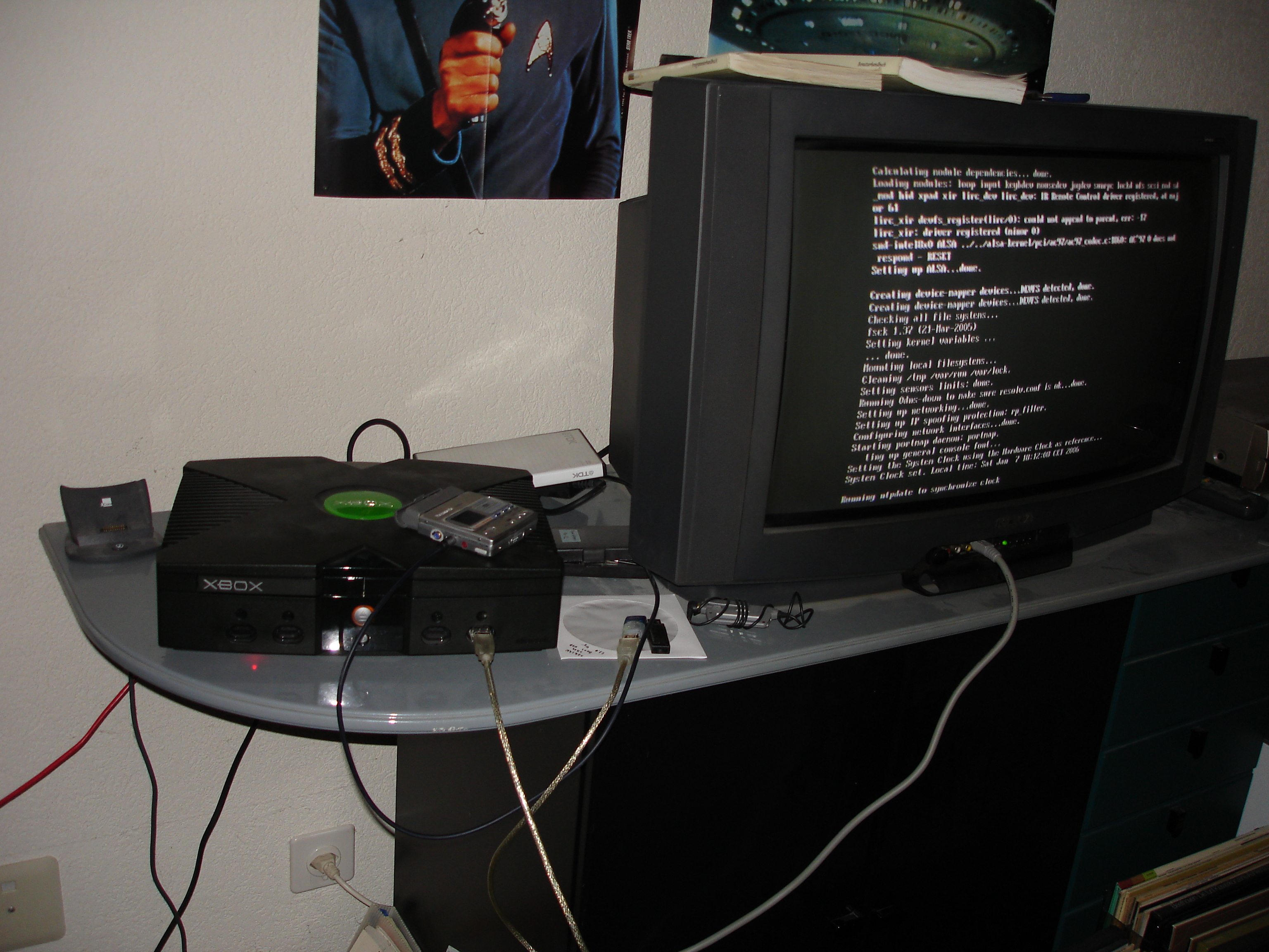 Modified XBox and a TV shown. Linux running (booting up) on the XBox. Bluetooth adapter connected to XBox via USB. And MiniDisc recorder connected to xbox via spdif. Picture taken by me.